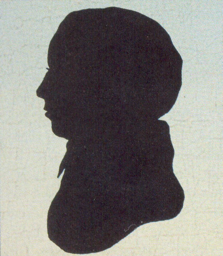 Francis Cabot Lowell (1775-1817); Credited with establishing the first integrated textile mill in the United States at Waltham, Massachusetts in 1813. The city of Lowell, Massachusetts was named in his honor. There are no portraits of him. This profile is commonly used in publications to represent him. This profile is even the basis of a sculpture of Francis Cabot Lowell located at the National Historic Park in Lowell, Massachusetts.